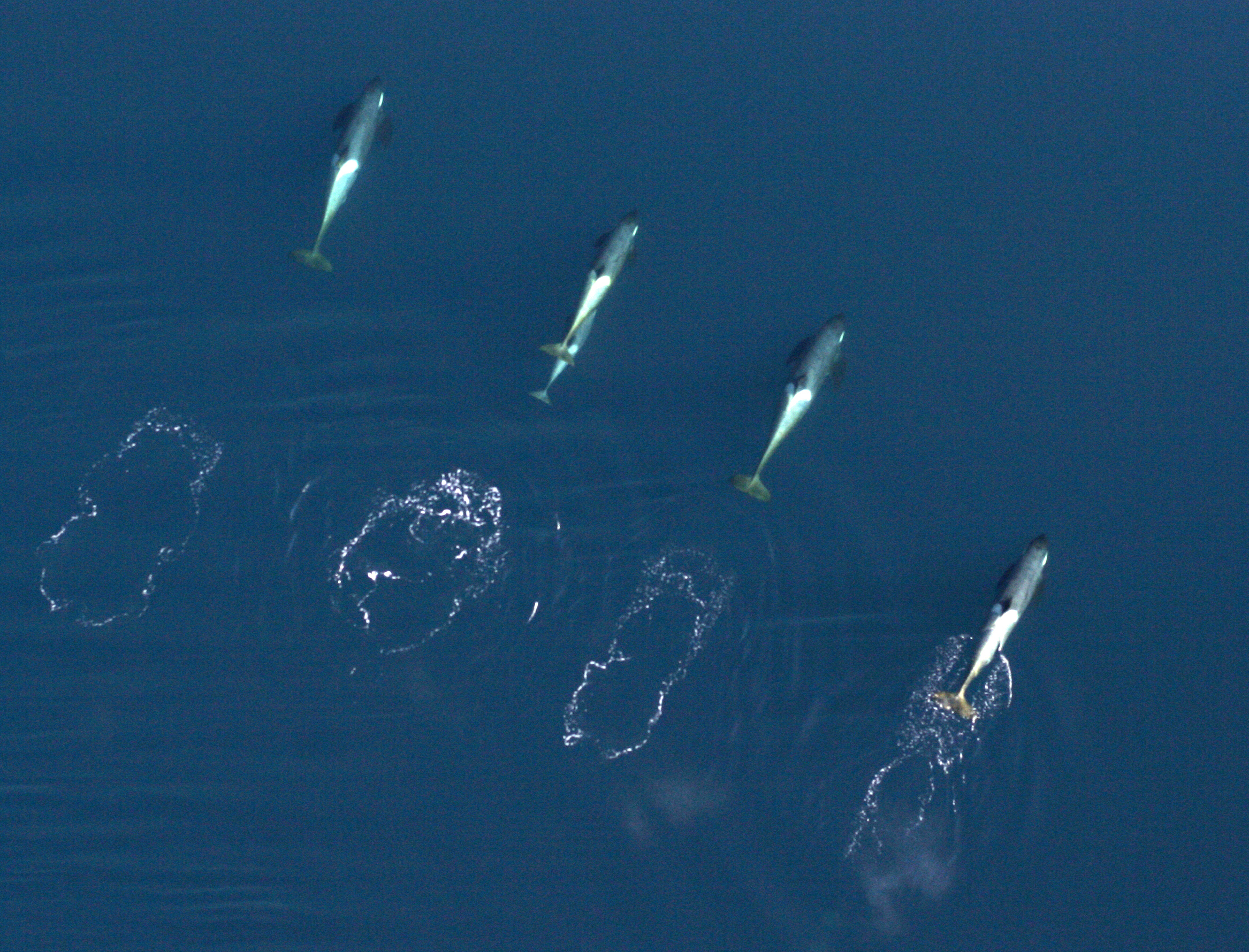 Five killer whales (four adult, one juvenile) swim in McMurdo Sound, Ross Sea, Antarctica. Original caption: "Four killer whales swim in McMurdo Sound. Researchers from NOAA Fisheries, Southwest Fisheries Science Center are studying the whales to determine if there are three separate species of Antarctic killer whales. They took aerial photos of the whales, such as this one taken in January 2005, as part of their work."